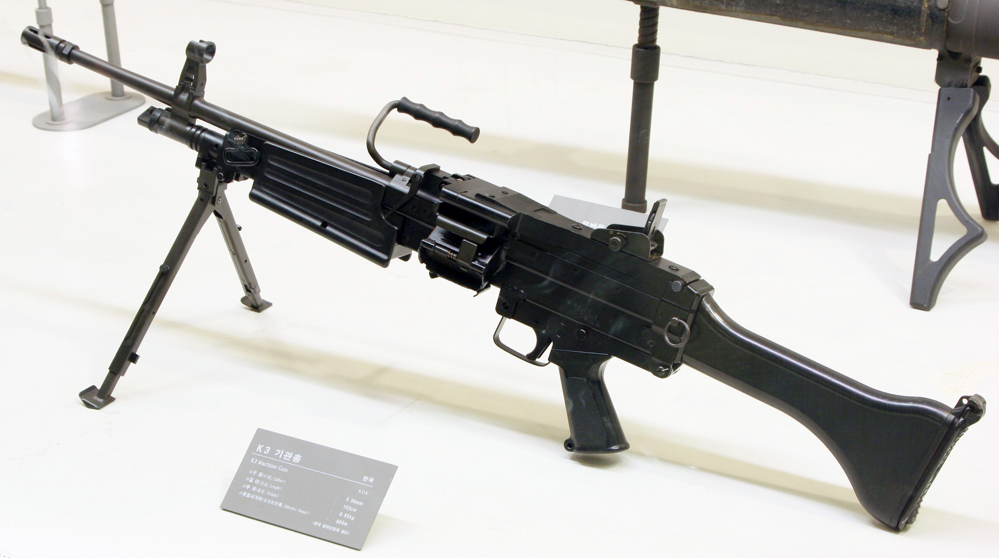 Daewoo K3 machine gun at the War Memorial of Korea